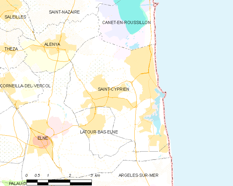 Map of French municipality